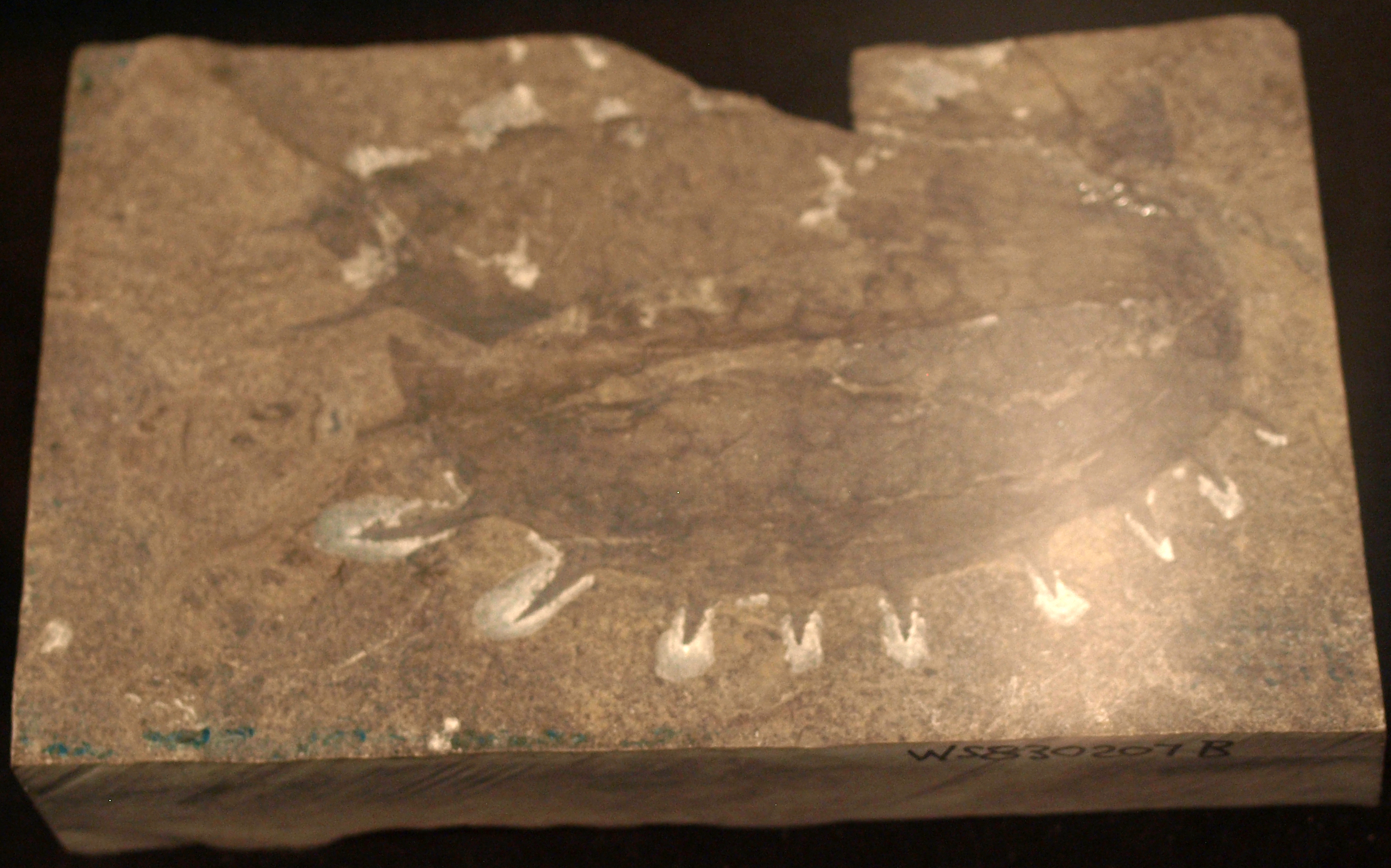 Specimen of Tuzoia cf. canadensis on display in the Royal Ontario Museum, Toronto.